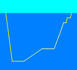 Multi-level dive profile